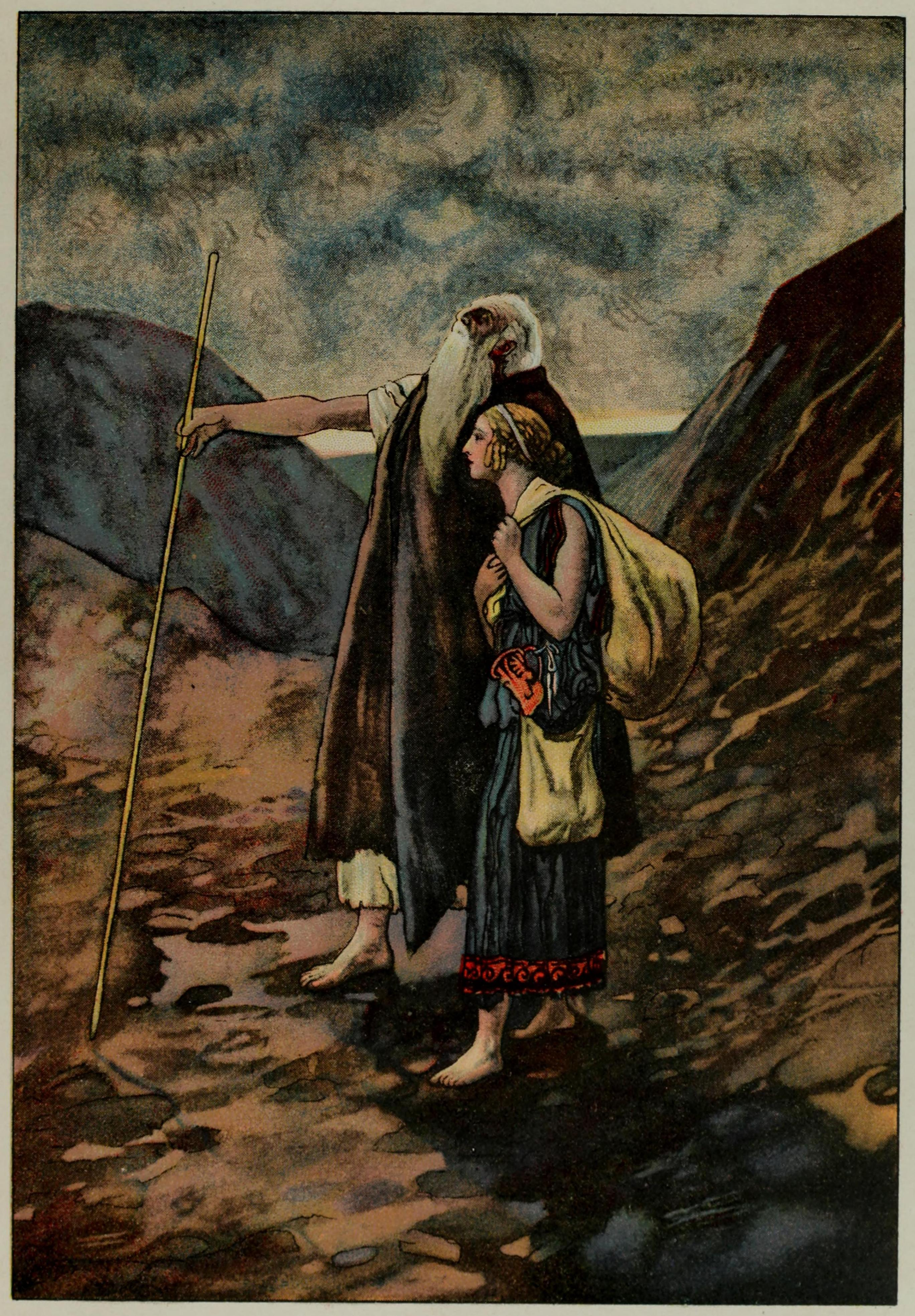 Myths and legends of all nations; famous stories from the Greek, German, English, Spanish, Scandinavian, Danish, French, Russian, Bohemian, Italian and other sources by Marshall, Logan, tr Publication date 1914 Topics Mythology, Legends Publisher Philadelphia, John C. Winston Co Collection internetarchivebooks; china Digitizing sponsor Internet Archive Contributor Internet Archive Language English Boxid IA118705 Camera Canon EOS 5D Mark II Donor alibris Identifier mythslegendsofal00mars Identifier-ark ark:/13960/t9s18zx4d Ocr ABBYY FineReader 8.0 Openlibrary_edition OL6571324M Openlibrary_work OL5080440W Page-progression lr Pages 324 Ppi 500 Scandate 20111017032623 Scanner Scanningcenter shenzhen Full catalog record MARCXML